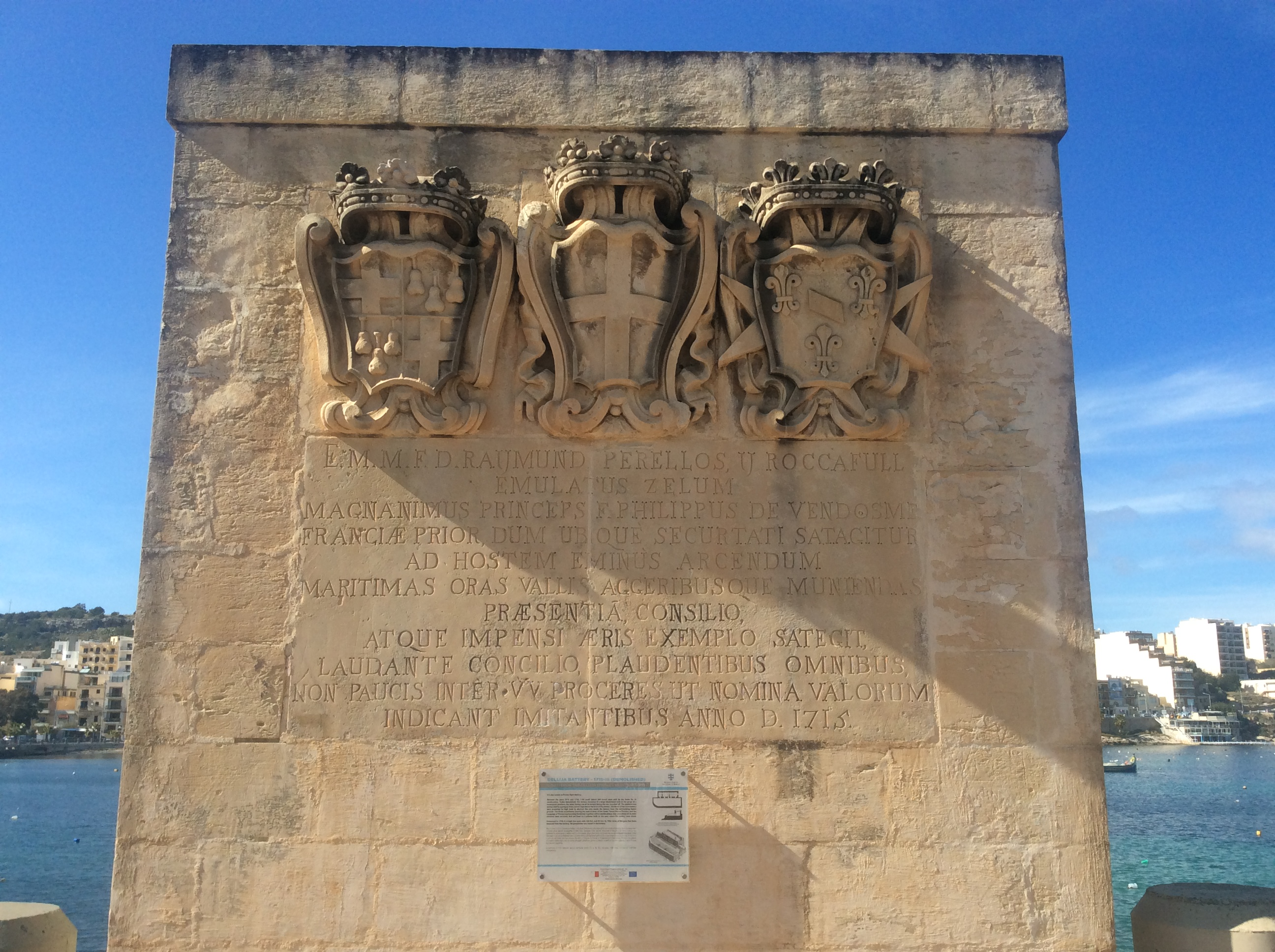 Delija Redoubt as monument